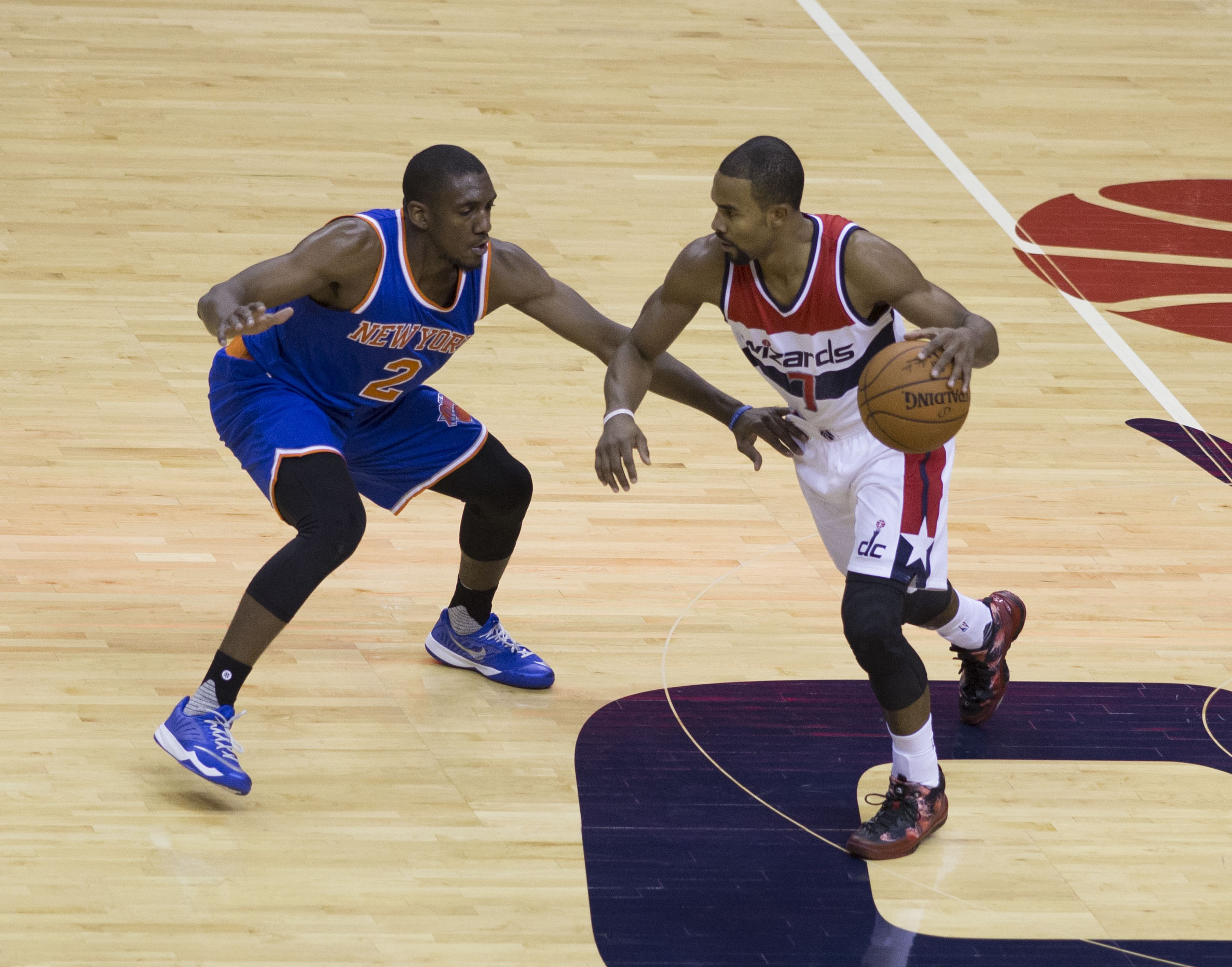 Knicks at Wizards 10/31/15